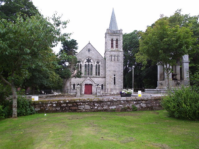 A Church in Golspie. I don't know the name of it but I thought it looked nice